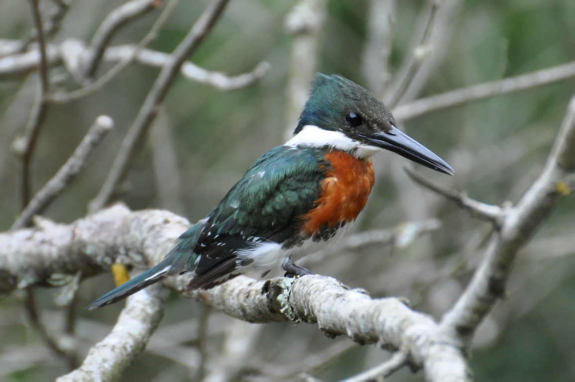 A male Green Kingfisher in Capao do Leao, Rio Grande do Sul, Brazil.